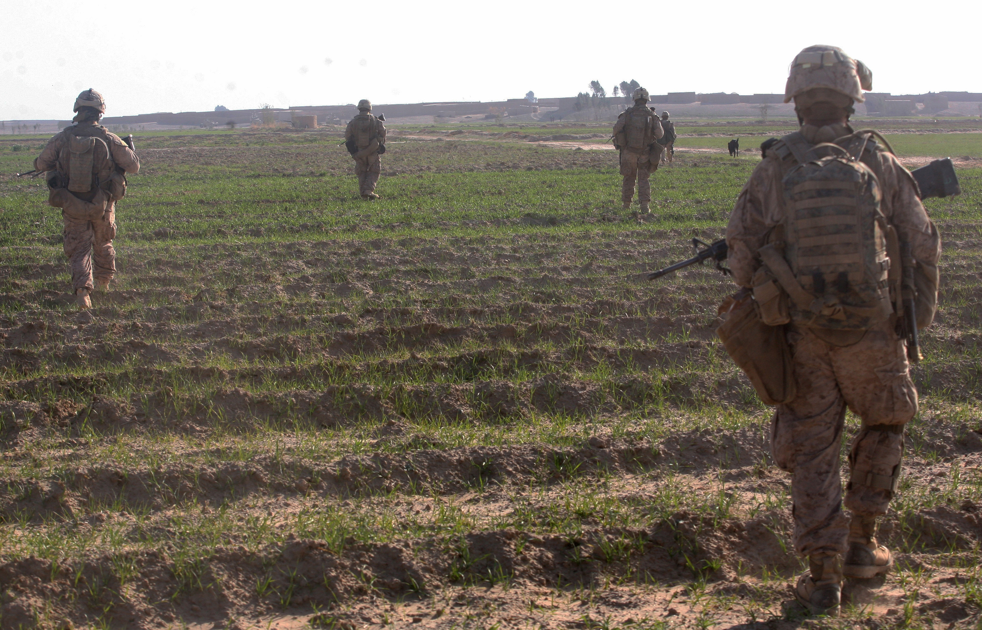 HELMAND PROVINCE, Islamic Republic of Afghanistan – Marines from 3rd Platoon, India Company, 3rd Battalion, 6th Marine Regiment, patrol on the outskirts of Marjah, Helmand province, Afghanistan, Feb. 14, 2010. The 3/6 Marines and soldiers from the Afghan National Army have been conducting The ANA soldiers and Marines from 3rd Battalion, 6th Marine Regiment, have been conducting Operation Moshtarak to eliminate Taliban presence and intimidation from the city of Marjah. (Official Marine Corps photo by Lance Cpl. Tommy Bellegarde)